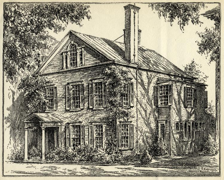 Drawing of the exterior front of the Elizabethan Club, Yale University, New Haven, Connecticut, 1920.